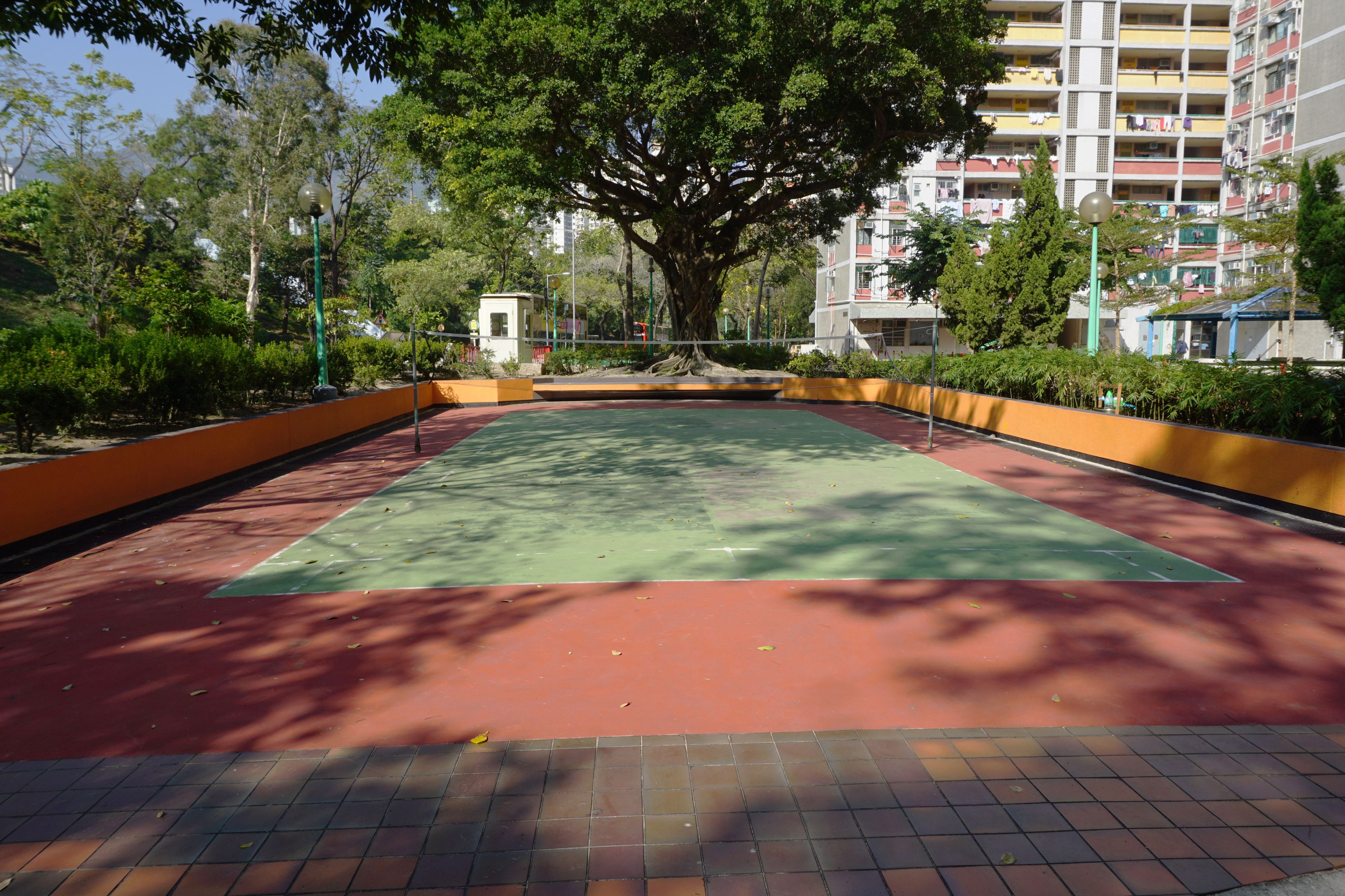 Tung Tau Estate in Wong Tai Sin, Hong Kong.